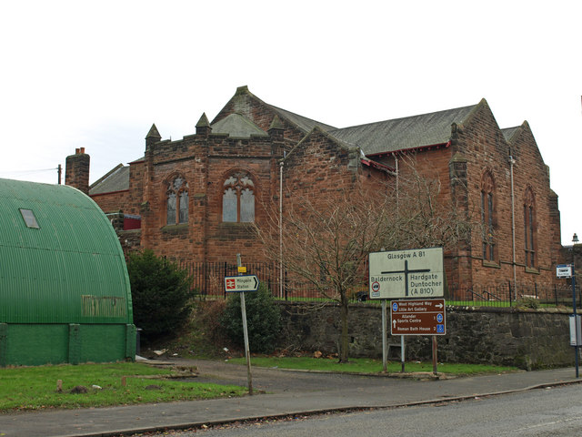 Two peas in a pod, Milngavie Nissen Hut/Church! St. Pauls Church of Scotland, Strathblane Road. Thank goodness for town planners.